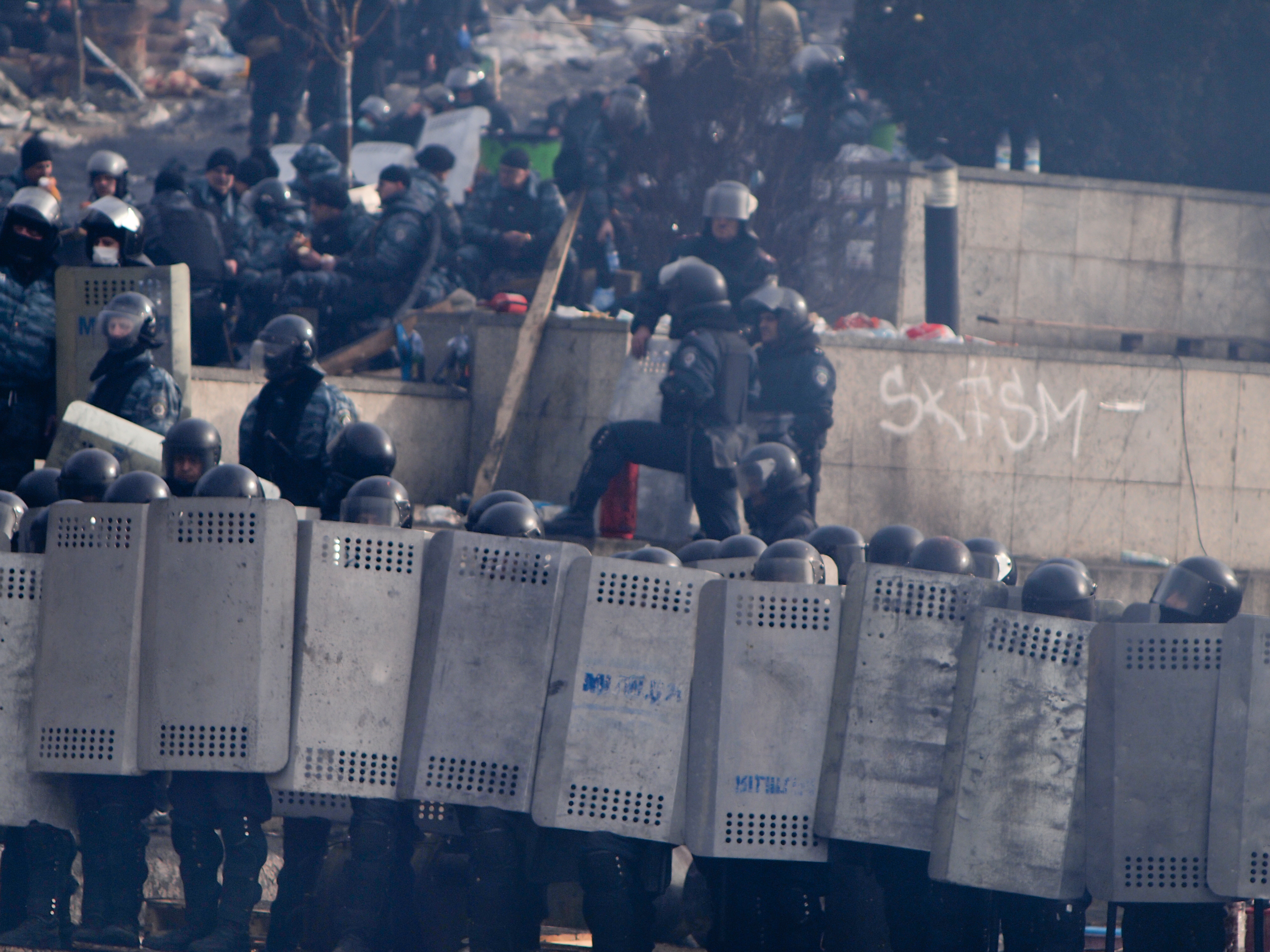 Euromaidan in Kiev, 19 February 2014. Internal troops form a phalanx against protesters. Berkut policemen are standing and sitting behind.